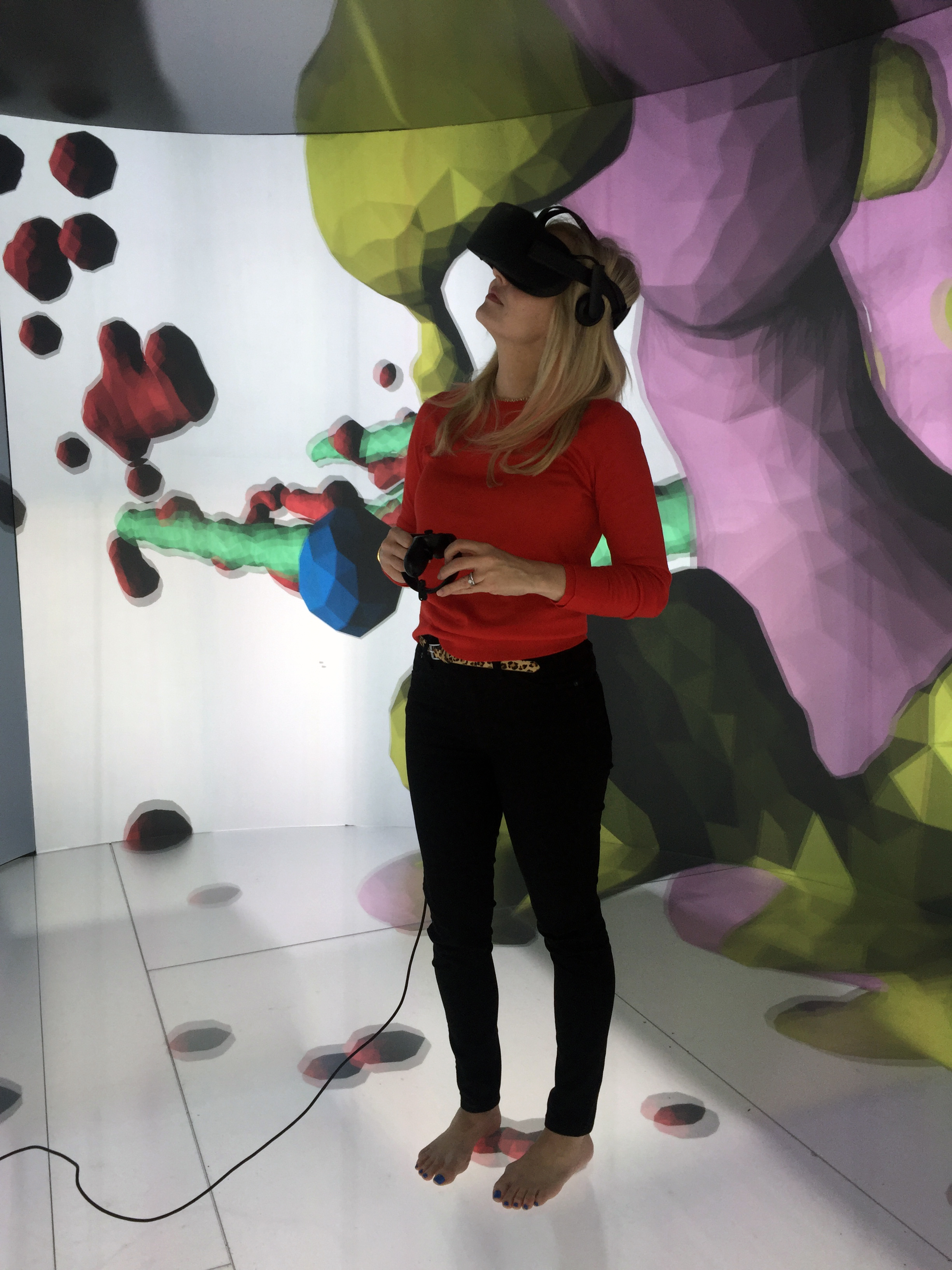 A 3D virtual reality (VR) version of 3D data of Cassiopeia A allows the user to walk inside the debris from a massive stellar explosion, select the parts of the supernova remnant to engage with and access short captions on what the materials are. This photo was taken of Kimberly Arcand, Visualization Lead for NASA's Chandra X-ray Observatory inside the Brown University YURT, or VR CAVE, during testing of the headset and application.